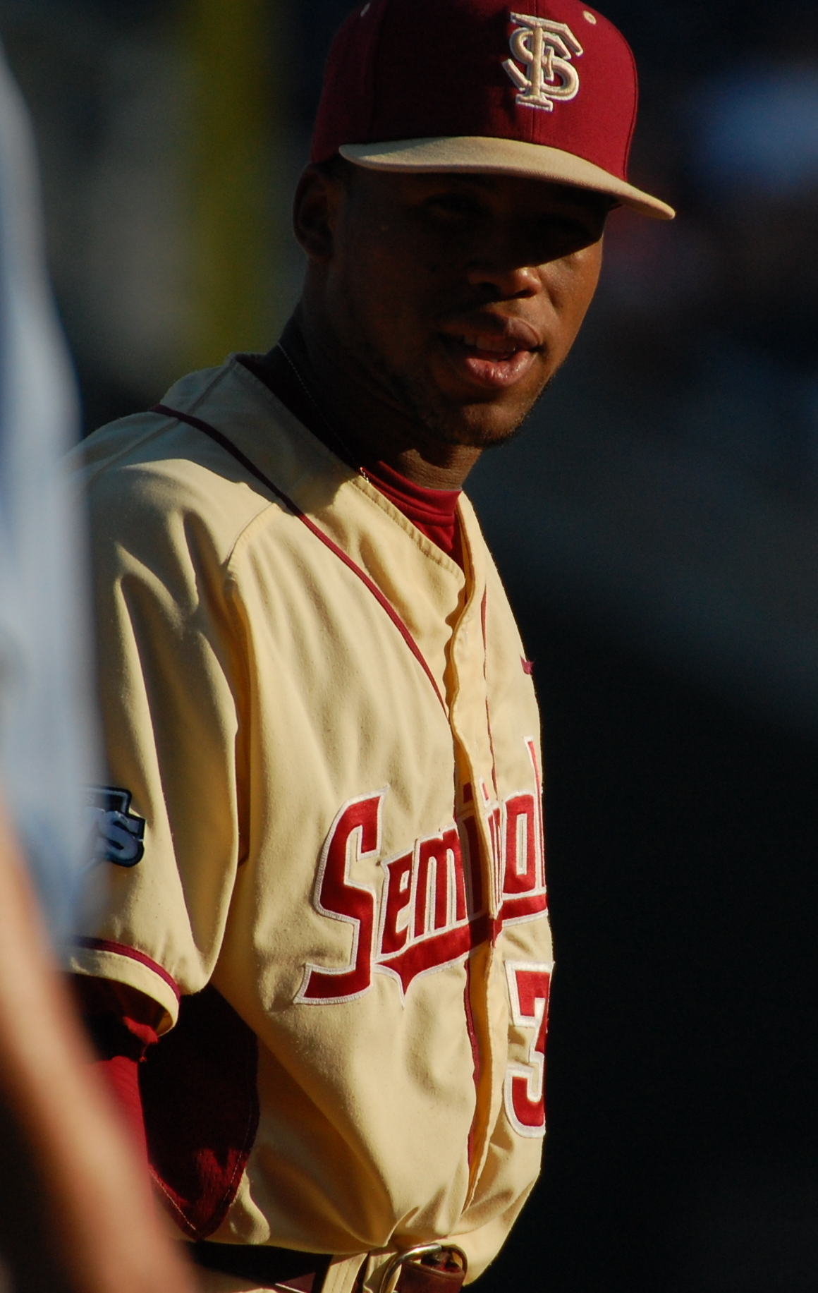 Florida State third baseman Sherman Johnson at the 2012 College World Series in Omaha